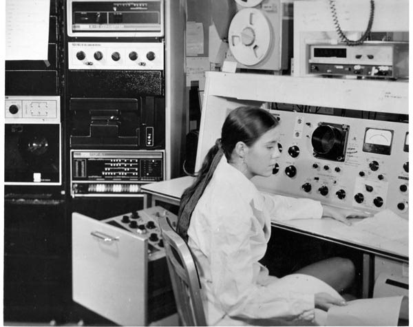 In 1975, NIH's central computer facility housed computers to aid in the collection, analysis and display of data from laboratory instruments, such as this mass spectrometer. Credit: National Institutes of Health